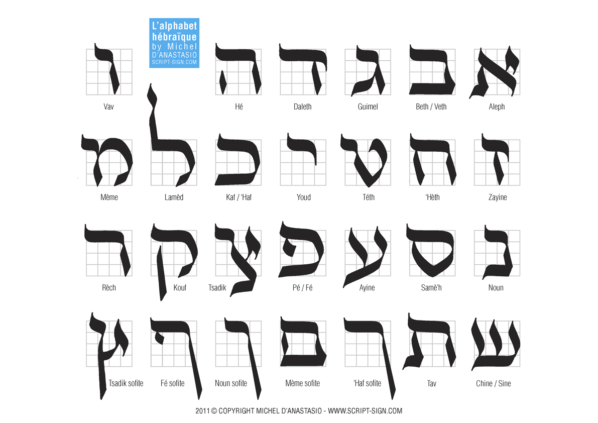 Hebrew alphabet